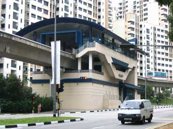 Senja LRT Station, Singapore.